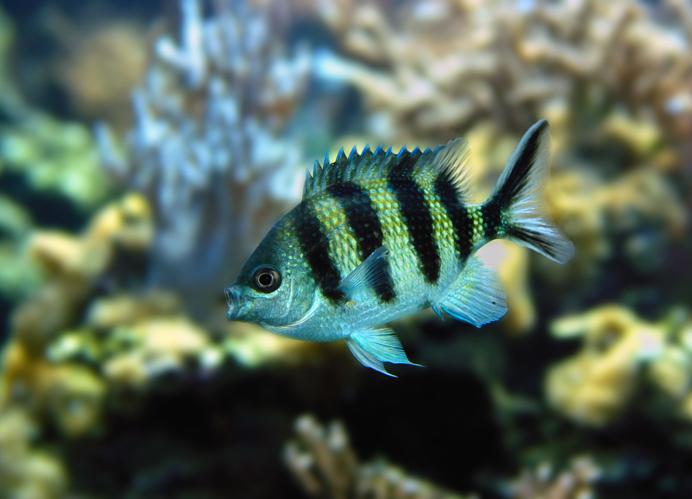 Austria, Vienna, Tiergarten Schönbrunn